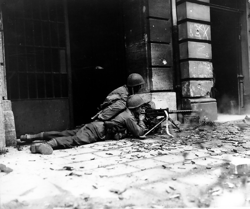 A GI machine gun crew (2d Battalion, 26th Infantry) with a M1919 Browning against the Nazi Wehrmacht in the streets of Aachen, Germany.